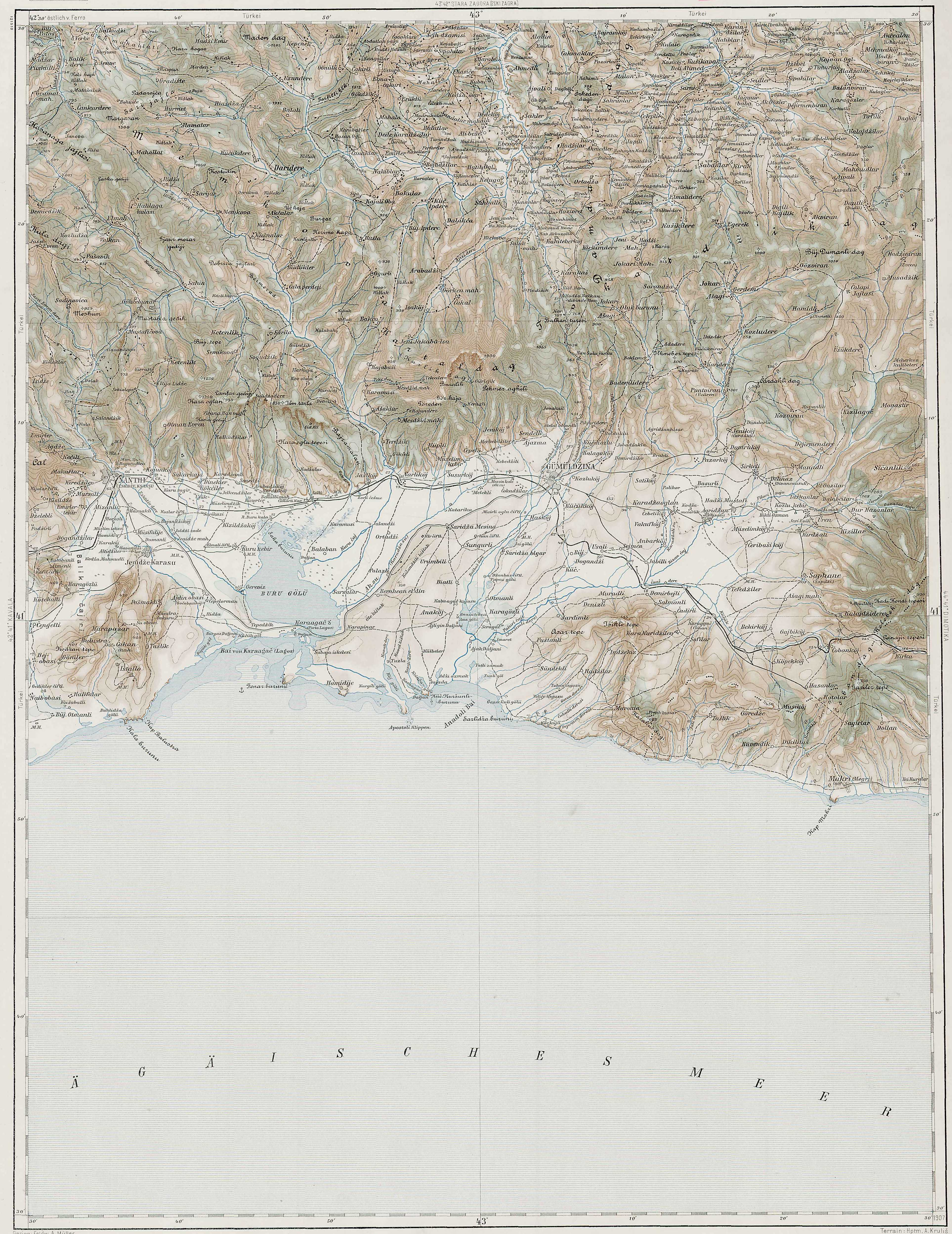 3rd Military Mapping Survey of Austria-Hungary - Xanthi